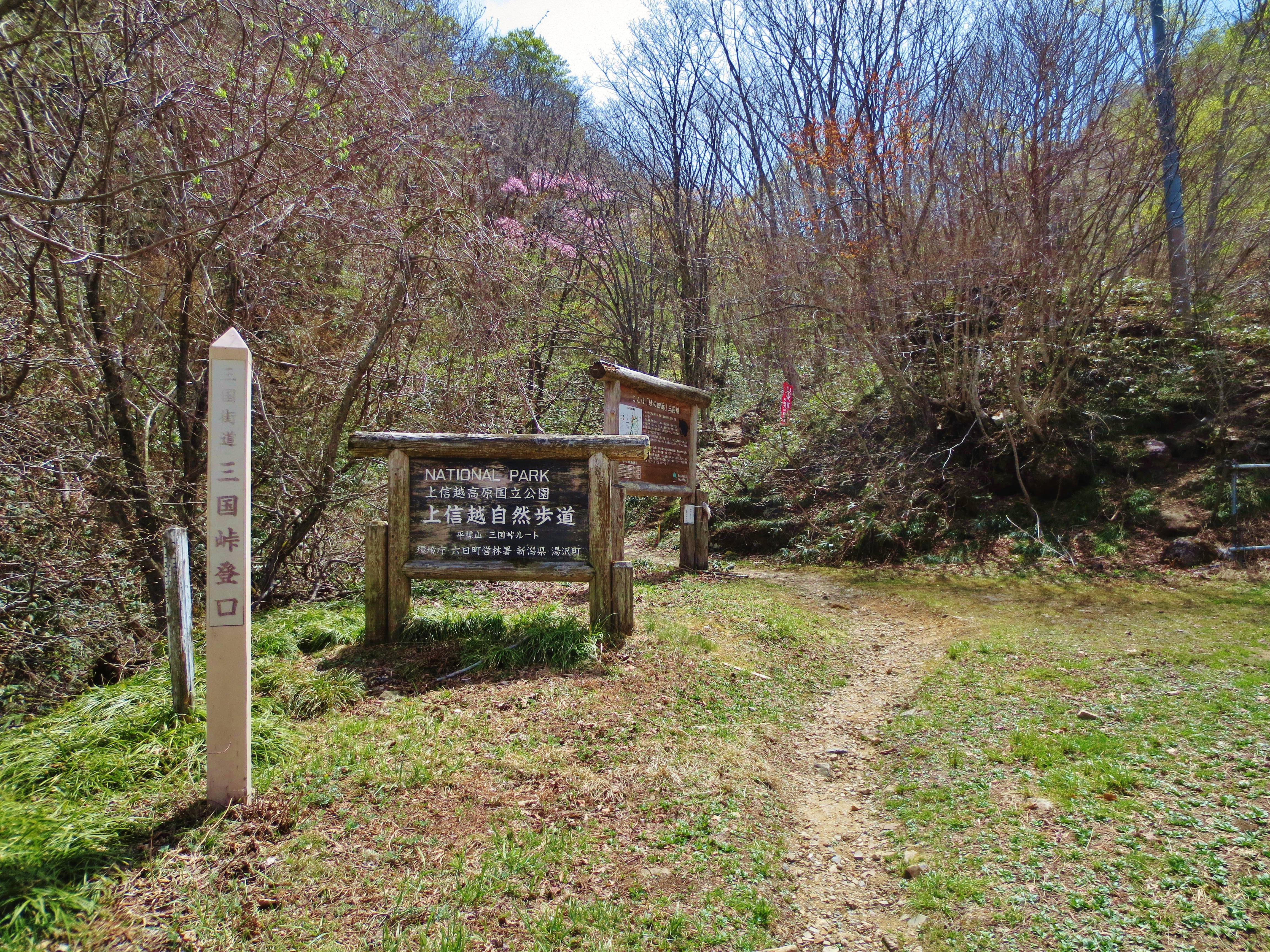 Mikuni Pass (Gunma Prefecture - Niigata Prefecture).